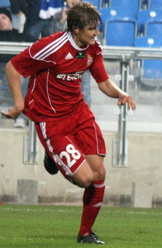 Cezary Wilk